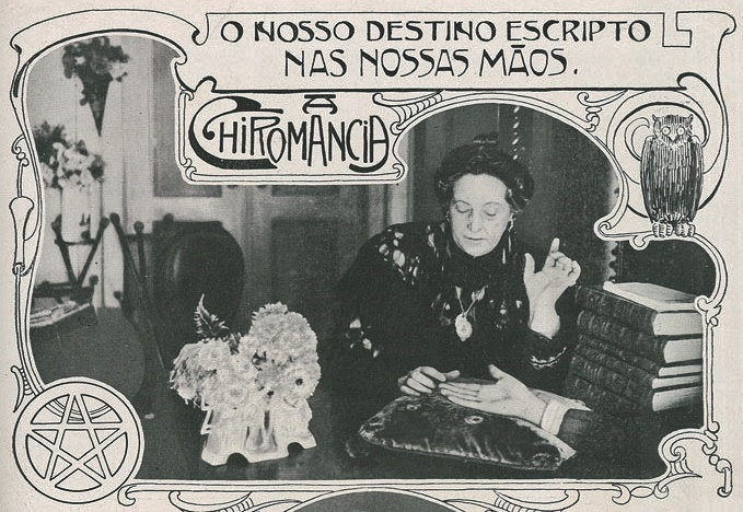 Madame Brouillard, in 1909.